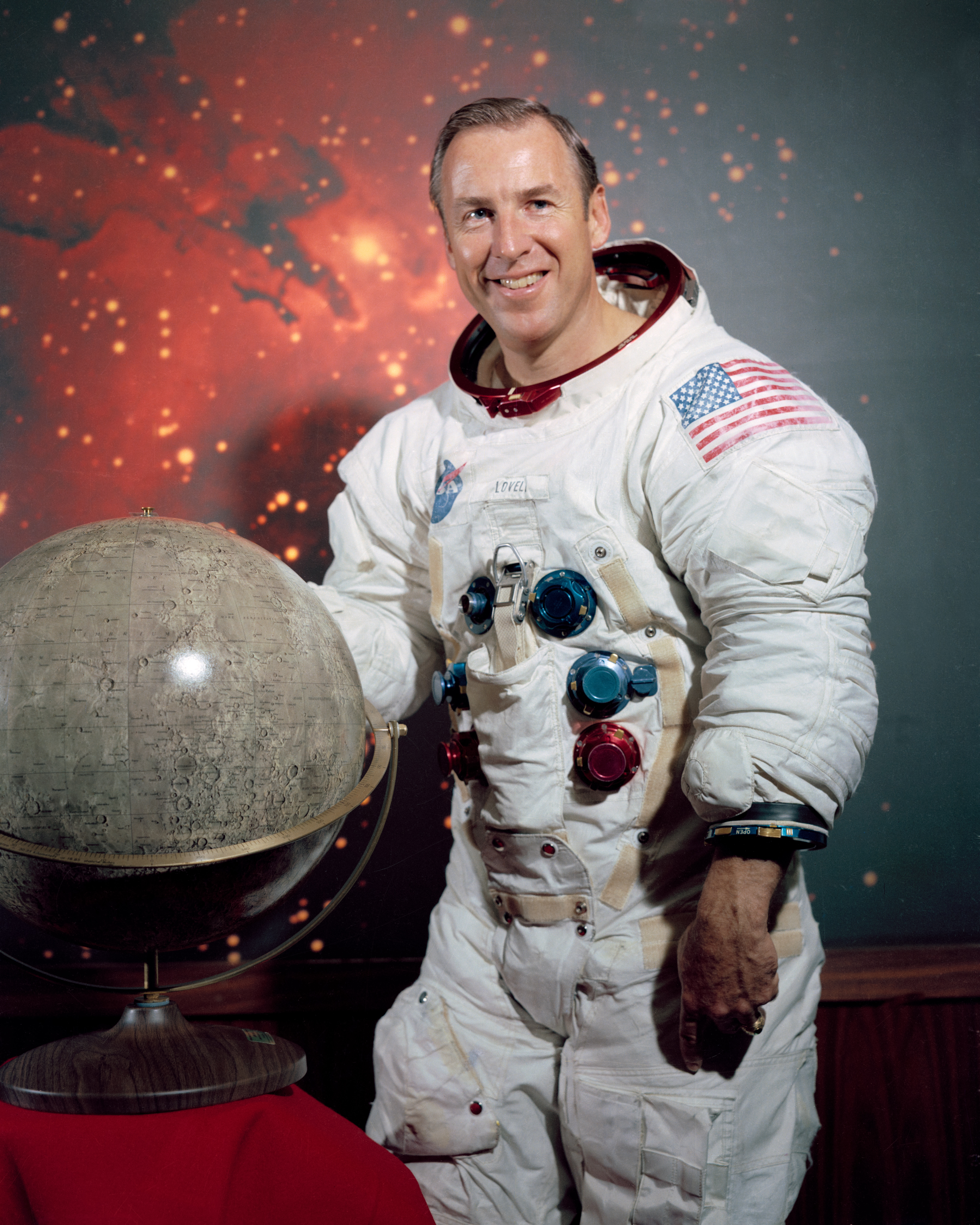 Portrait of astronaut James A. Lovell, Jr. in his space suit beside a model of the Moon.